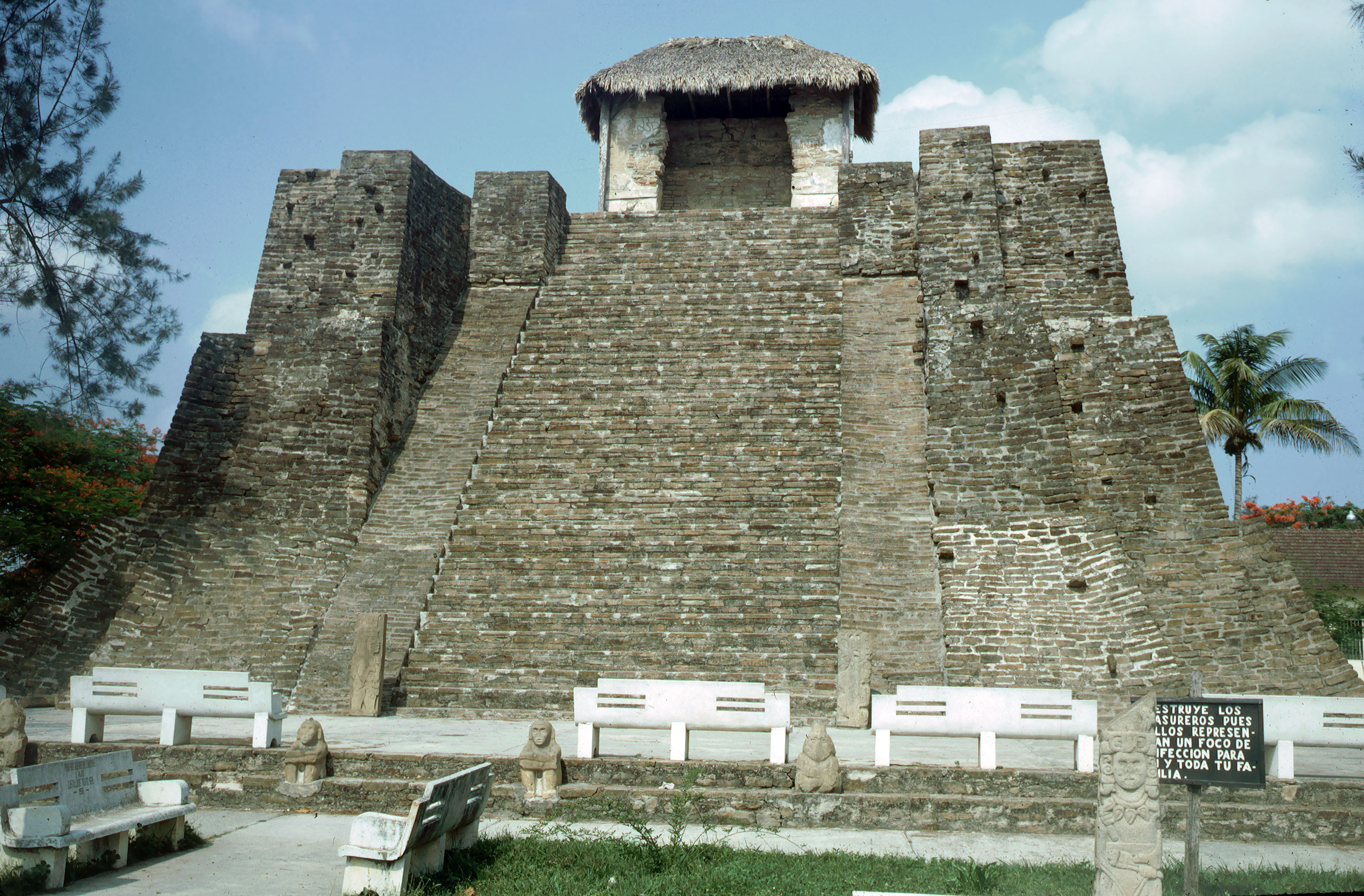 Castillo de Teayo, Veracruz, Mexico: pyramid at main square.